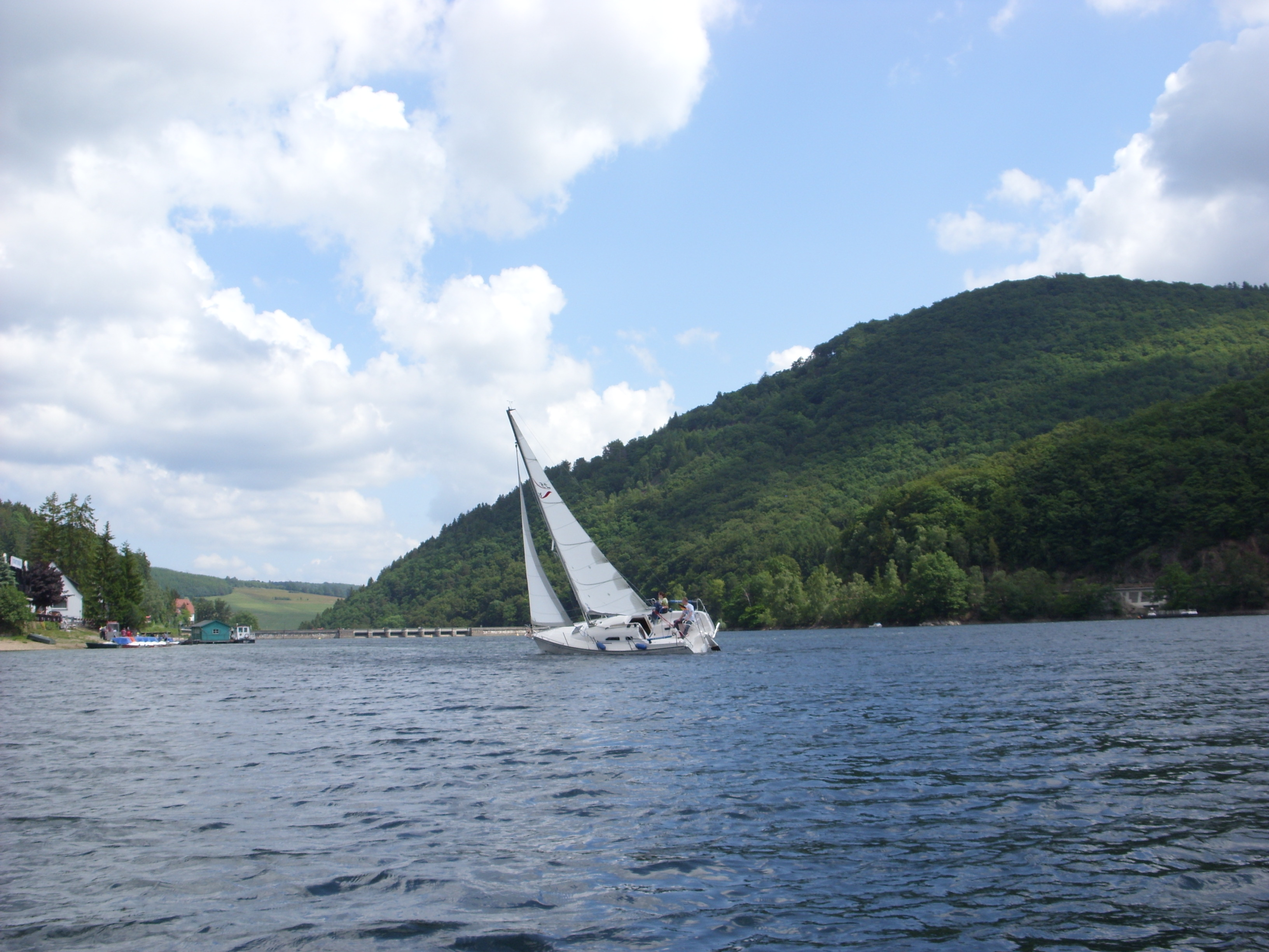 A sailboat in tilt on the lake Diemelsee in Hesse (Germany)